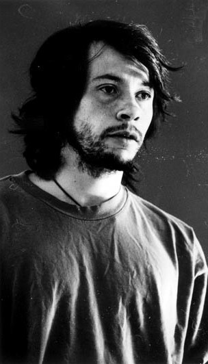 Antonino Isordia Llamazares durante el rodaje del documental 1973